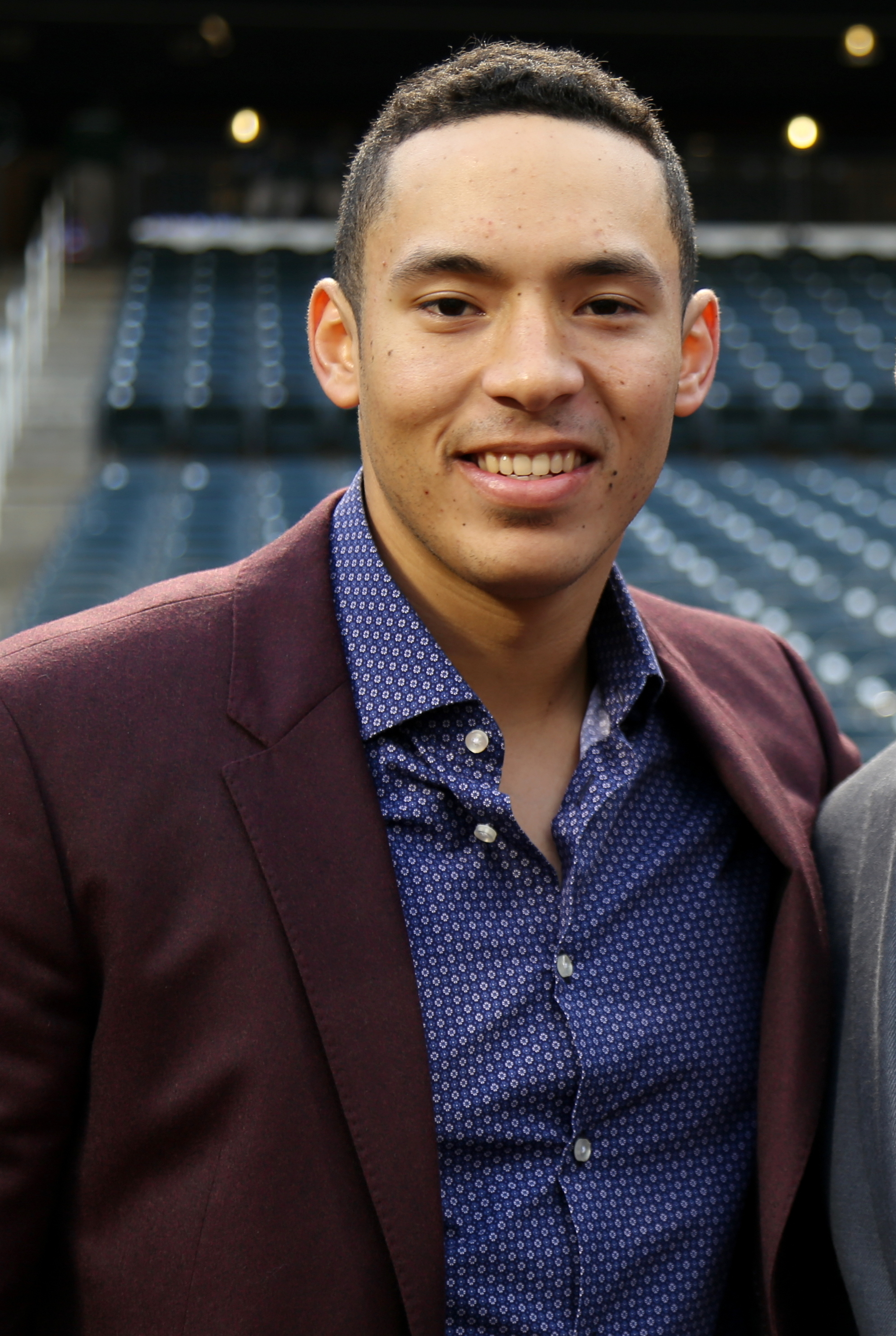 Carlos Correa and Alex Rodriguez meet before Game 4 of the 2015 #WorldSeries.